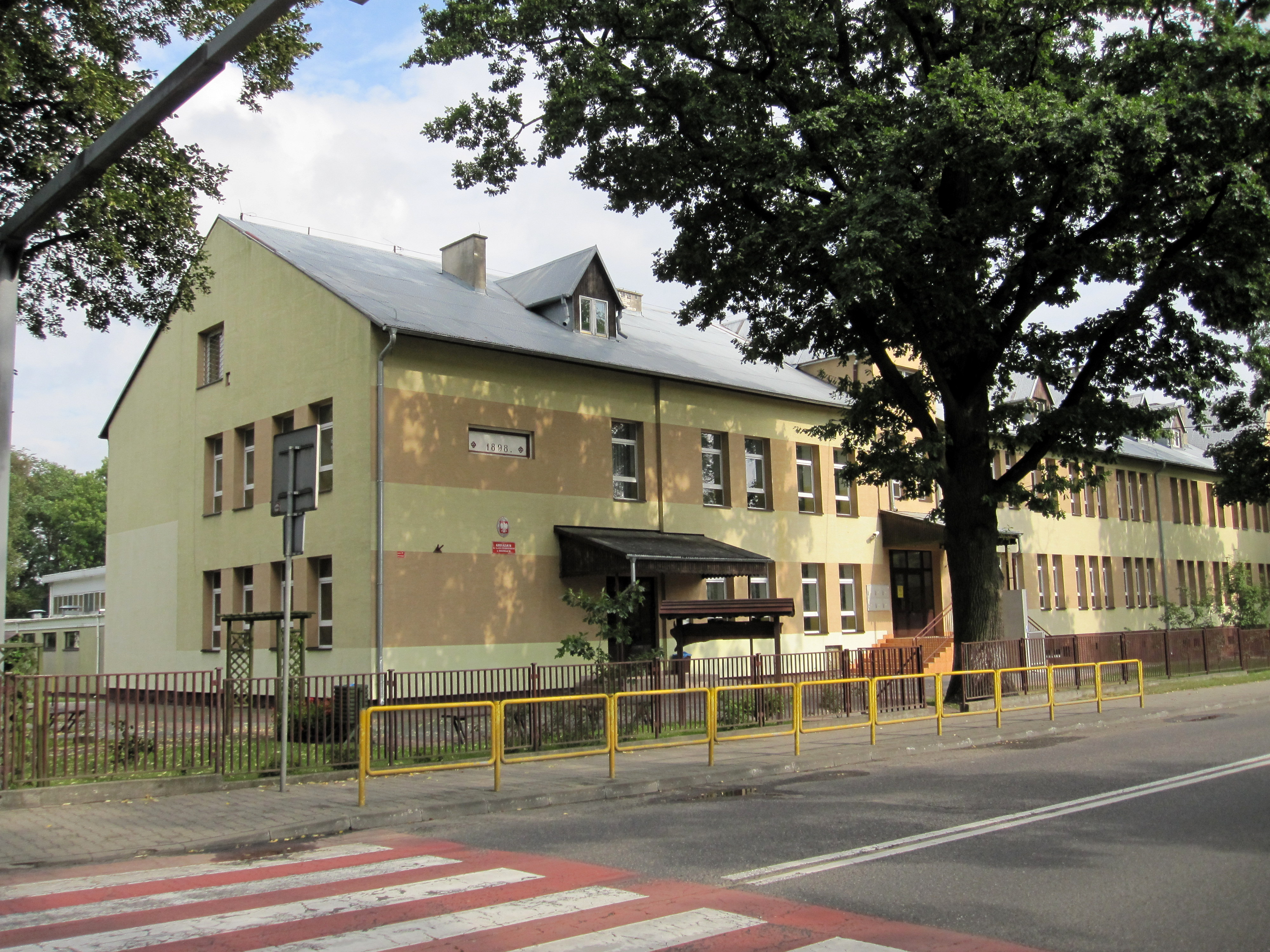 Rozogi - school building